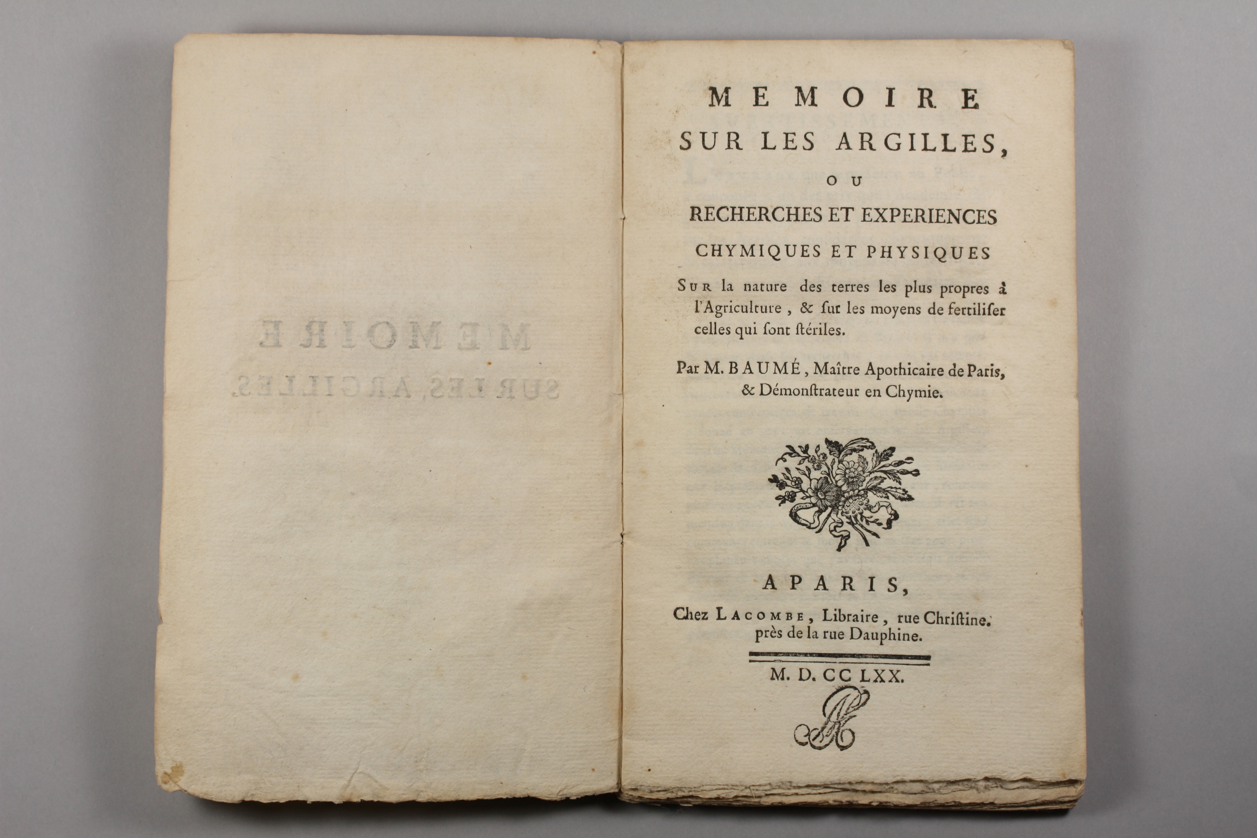 Title page of Memoire sur les argilles, ou, Recherches et experiences chymiques et physiques : sur la nature des terres les plus propres à l'agriculture, & sur les moyens de fertiliser celles qui sont stériles / par M. Baumé... A Paris : Chez Lacombe ..., 1770.